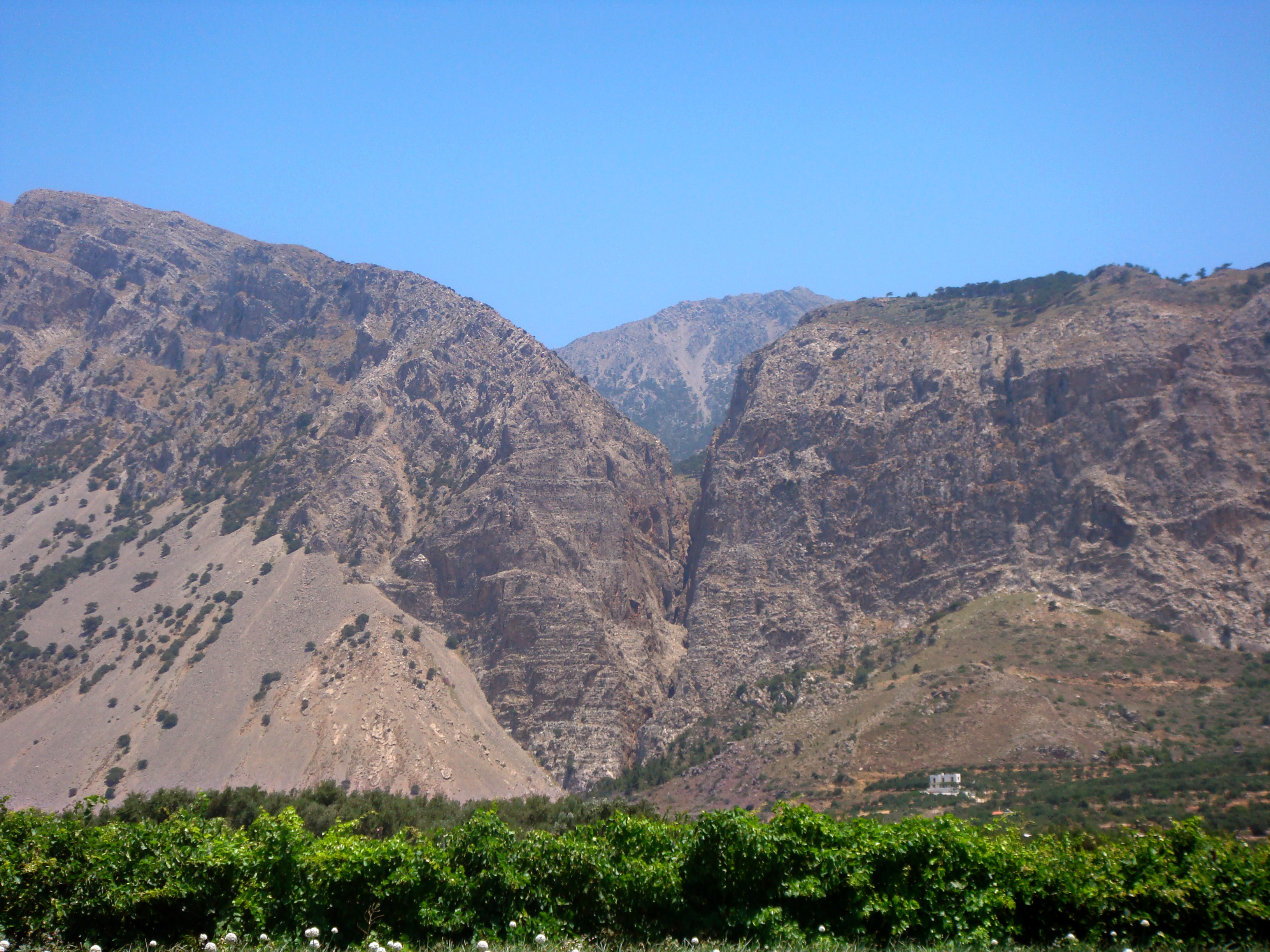 The Gorge of Ha, in Lasithi Prefecture. Cha-Schlucht, 1 km südlich Pachia Ammos